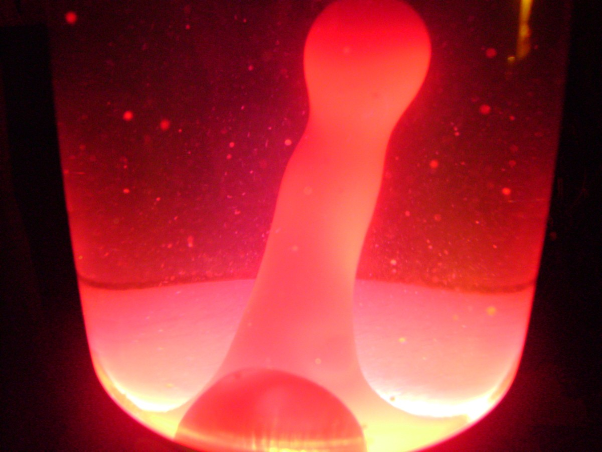 A wax bubble splitting off in a lava lamp